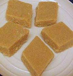 Sukhdi is an Indian sweet dish and most commonly made in Gujarat province.